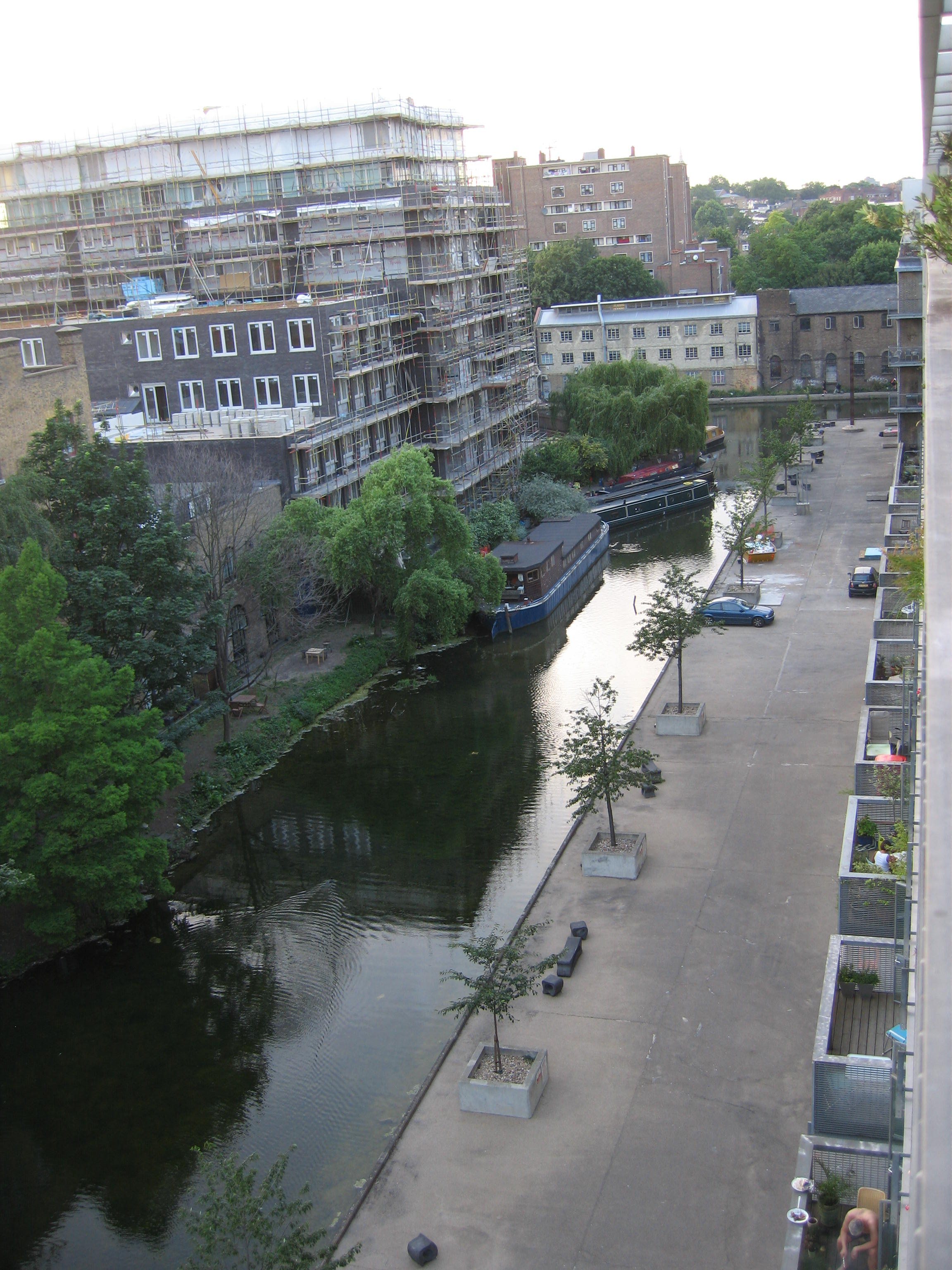 Looking North up Wenlock Basin towards its junction with the Regent's Canal.